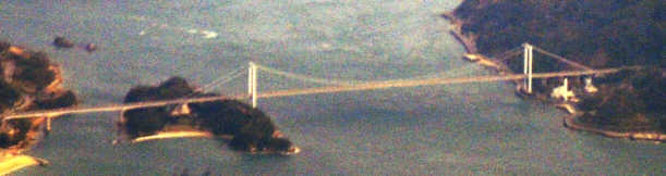 The Hakata-Ohshima Bridge. This version has been cropped, reduced in size, color and contrast adjusted. (2007/03/05 In Flight, 3X2313, Imabari, Ehime, JAPAN)